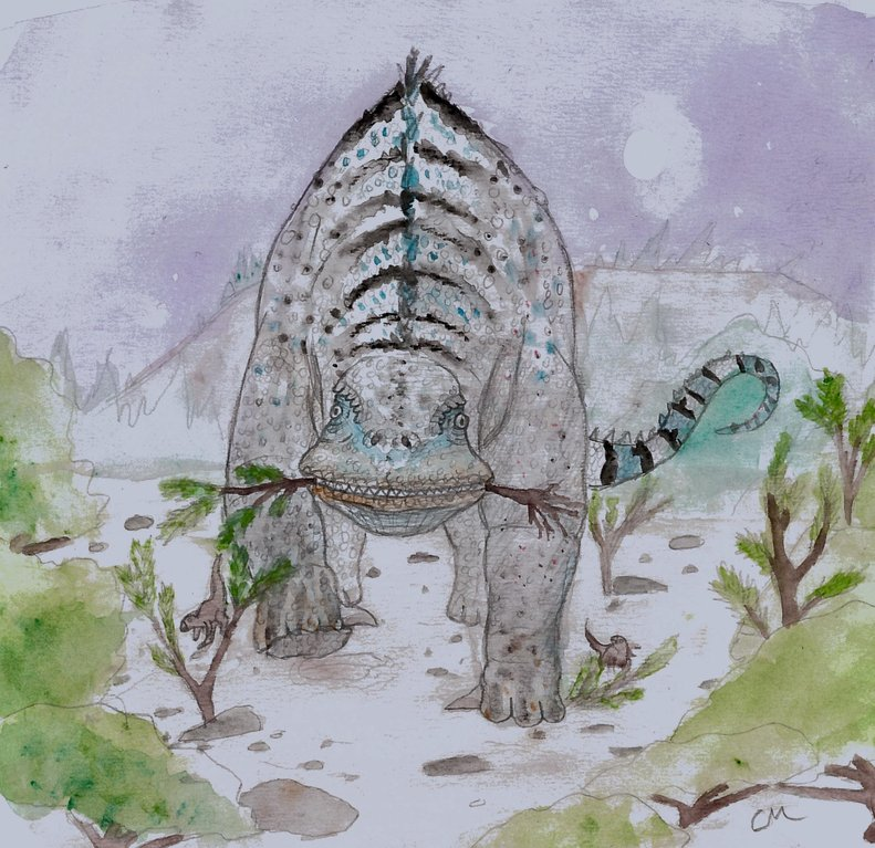 Maraapunisaurus at night